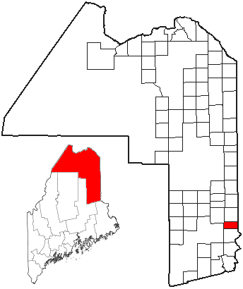 Adapted from U.S. Census Bureau maps (American FactFinder) and Wikipedia's ME county maps by Bumm13.